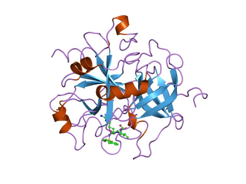 Cartoon representation of the molecular structure of protein registered with 1dwc code.